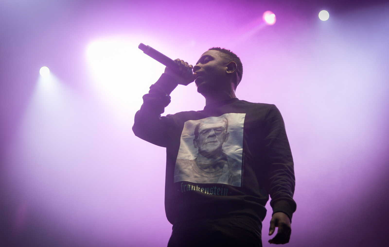 Kendrick Lamar at Øyafestivalen 2013